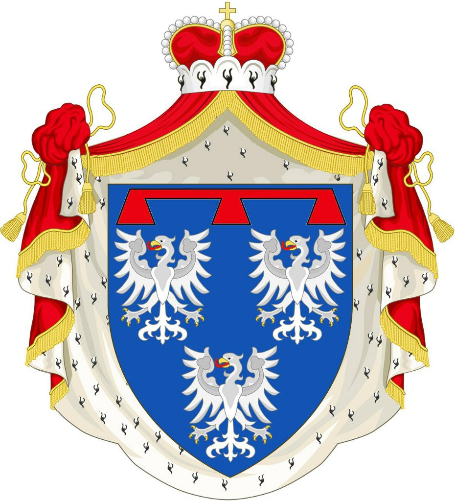 House of Leiningen coat of arms